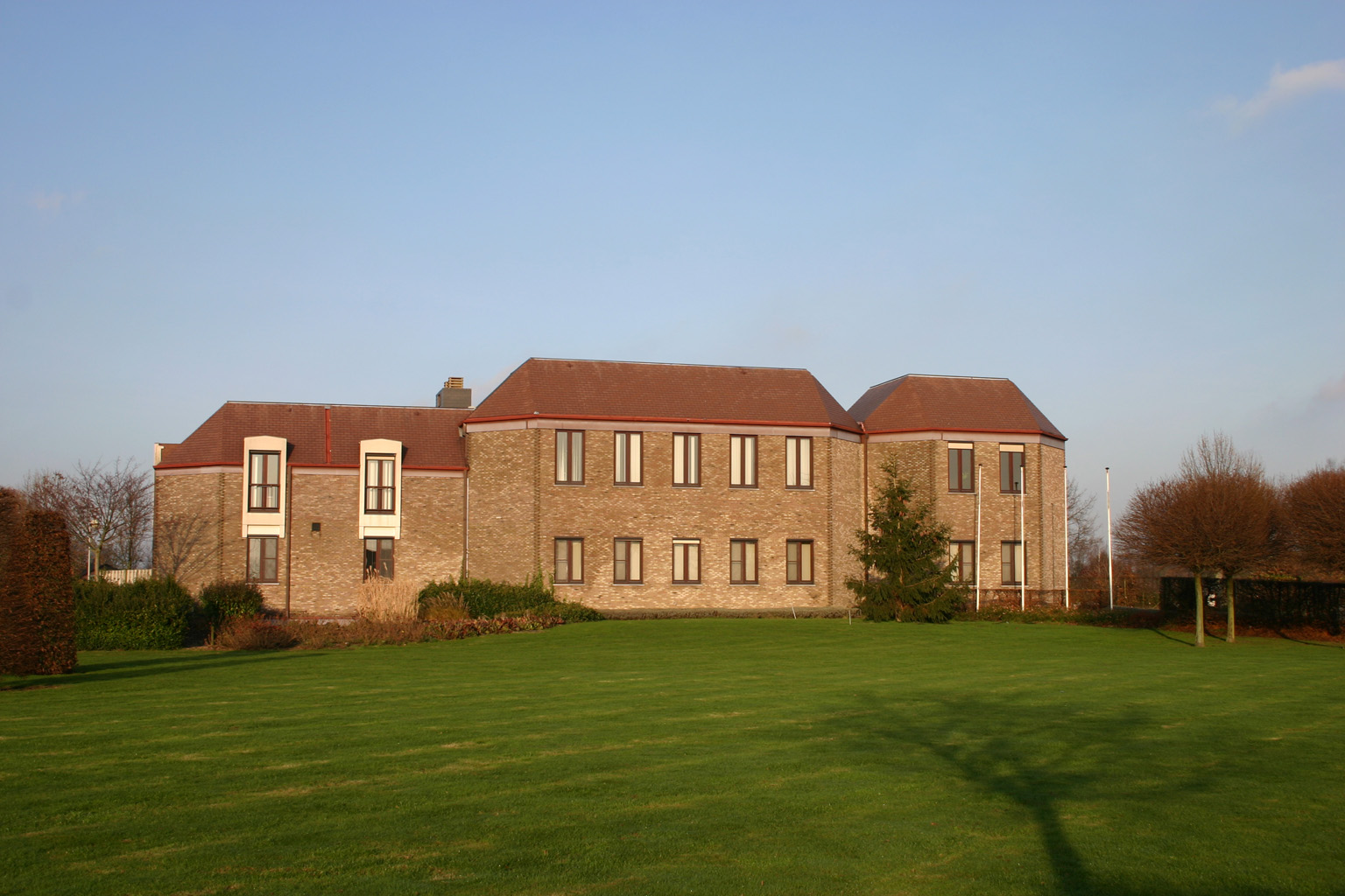 Community building in Kinrooi (Belgium)